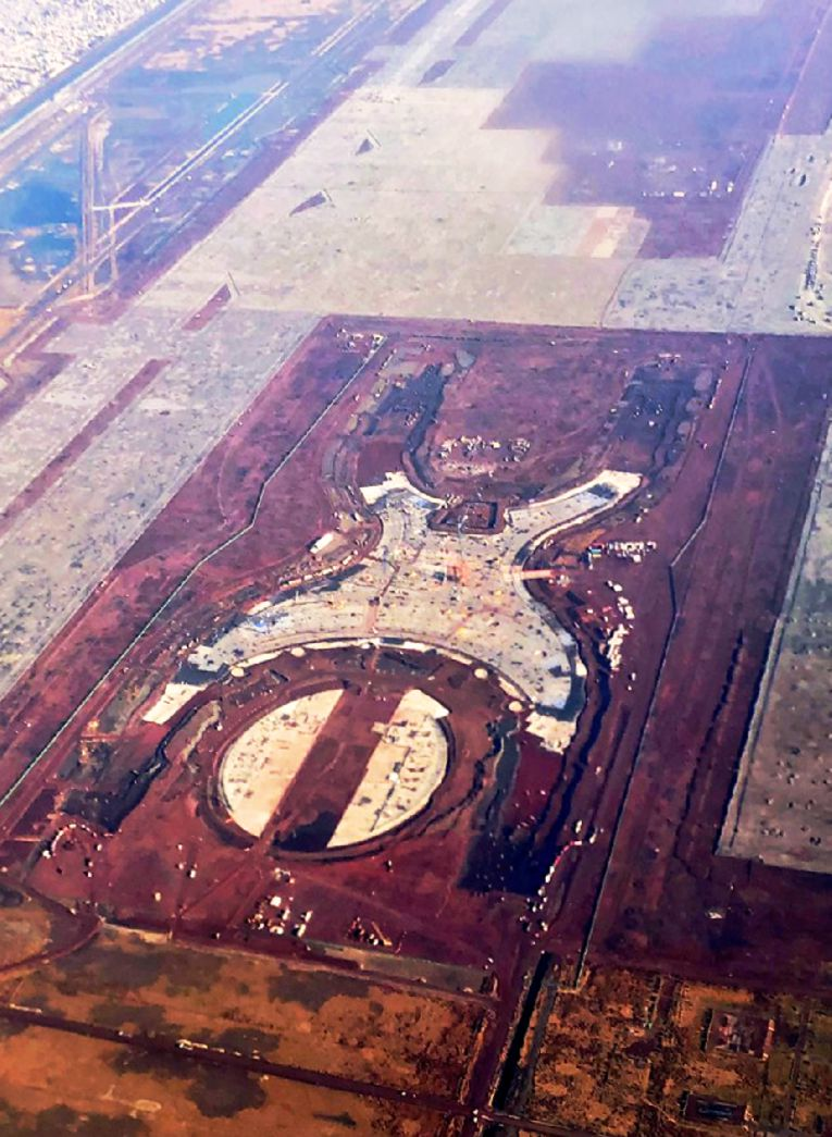 Aerial picture of the New Mexico City Airport - 02/2018